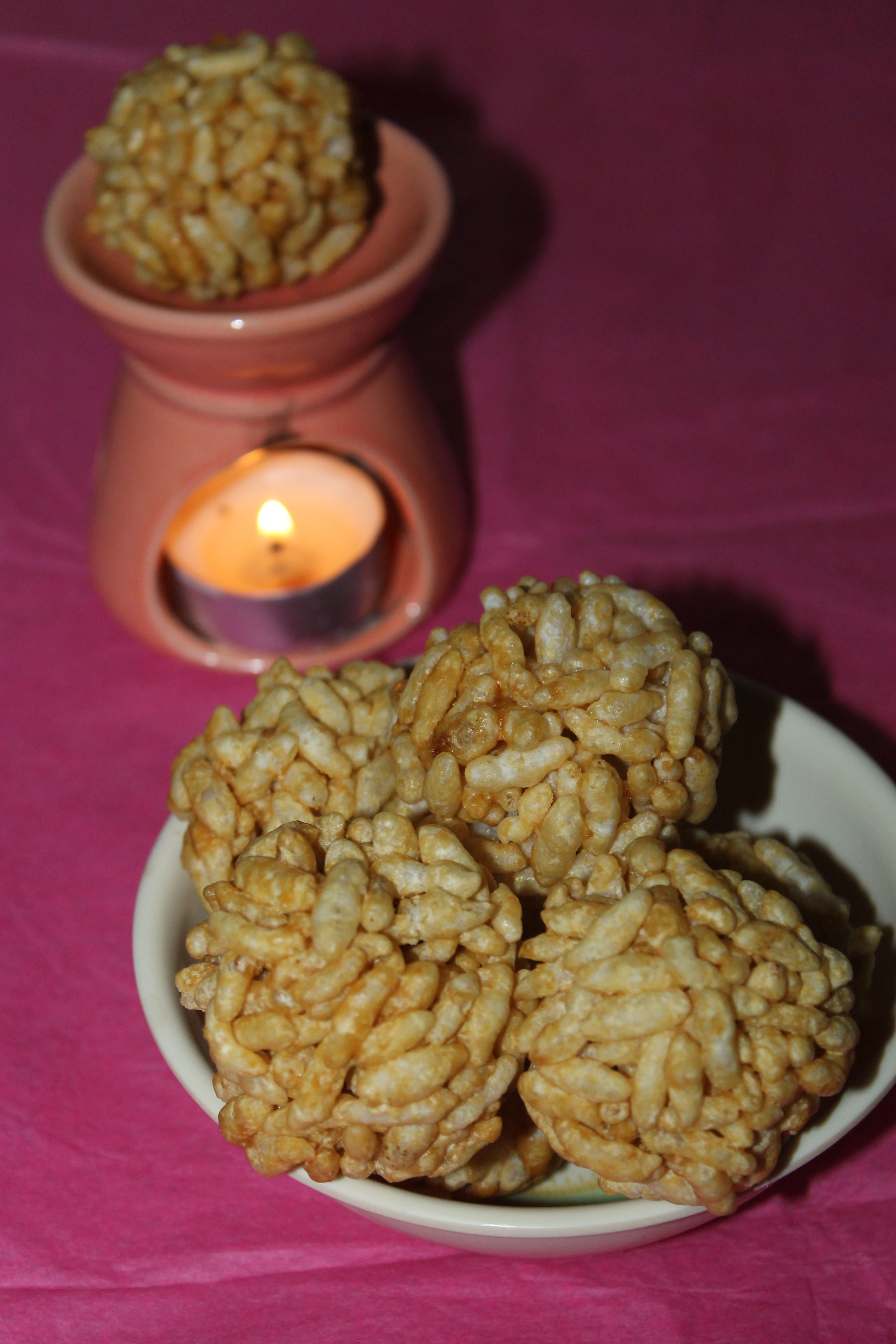 Pori Urundai is a sweet made for Karthigai Deepam festival and offered to God. It is made of puffed rice and jaggery.